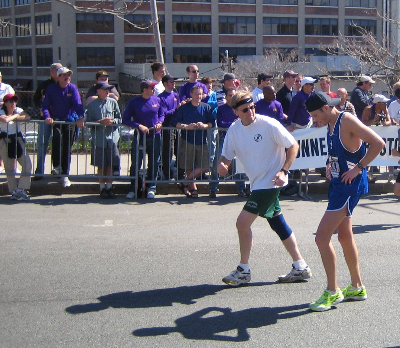 A man helps a friend along at the 2005 Boston Marathon, near mile 25 on the MBTA overpass. Location: Boston, Massachusetts, USA